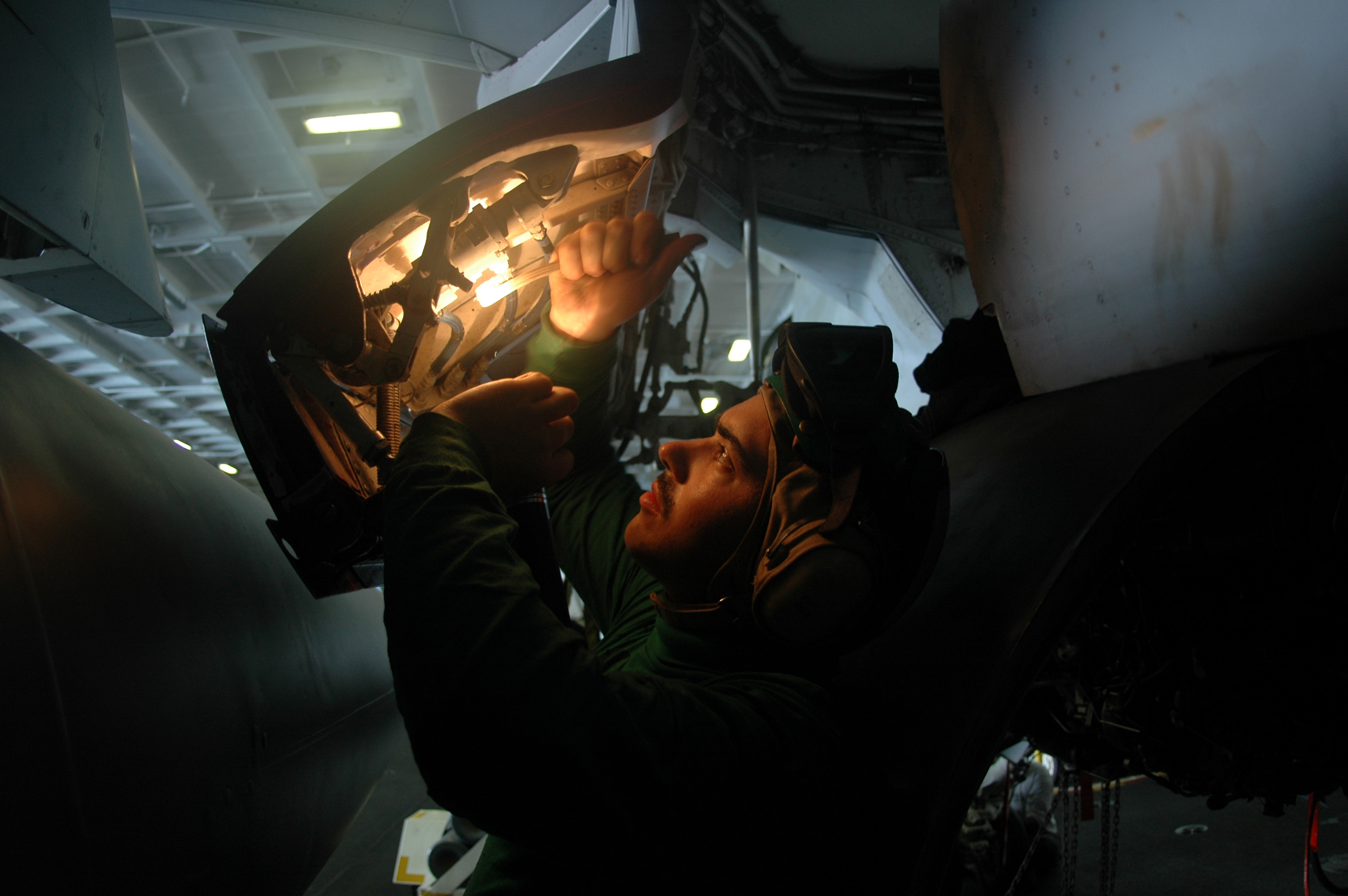 INDIAN OCEAN (Oct. 3, 2009) Aviation Structural Mechanic 2nd Class Anthony Ward performs maintenance on an EA-6B Prowler assigned to the Black Ravens of Electronic Attack Squadron (VAQ) 135 in the hangar bay of the aircraft carrier USS Nimitz (CVN 68). The Nimitz Carrier Strike Group is on a routine deployment to the U.S. 5th Fleet area of responsibility. (U.S. Navy photo by Mass Communication Specialist Seaman Apprentice Robert Winn/Released)